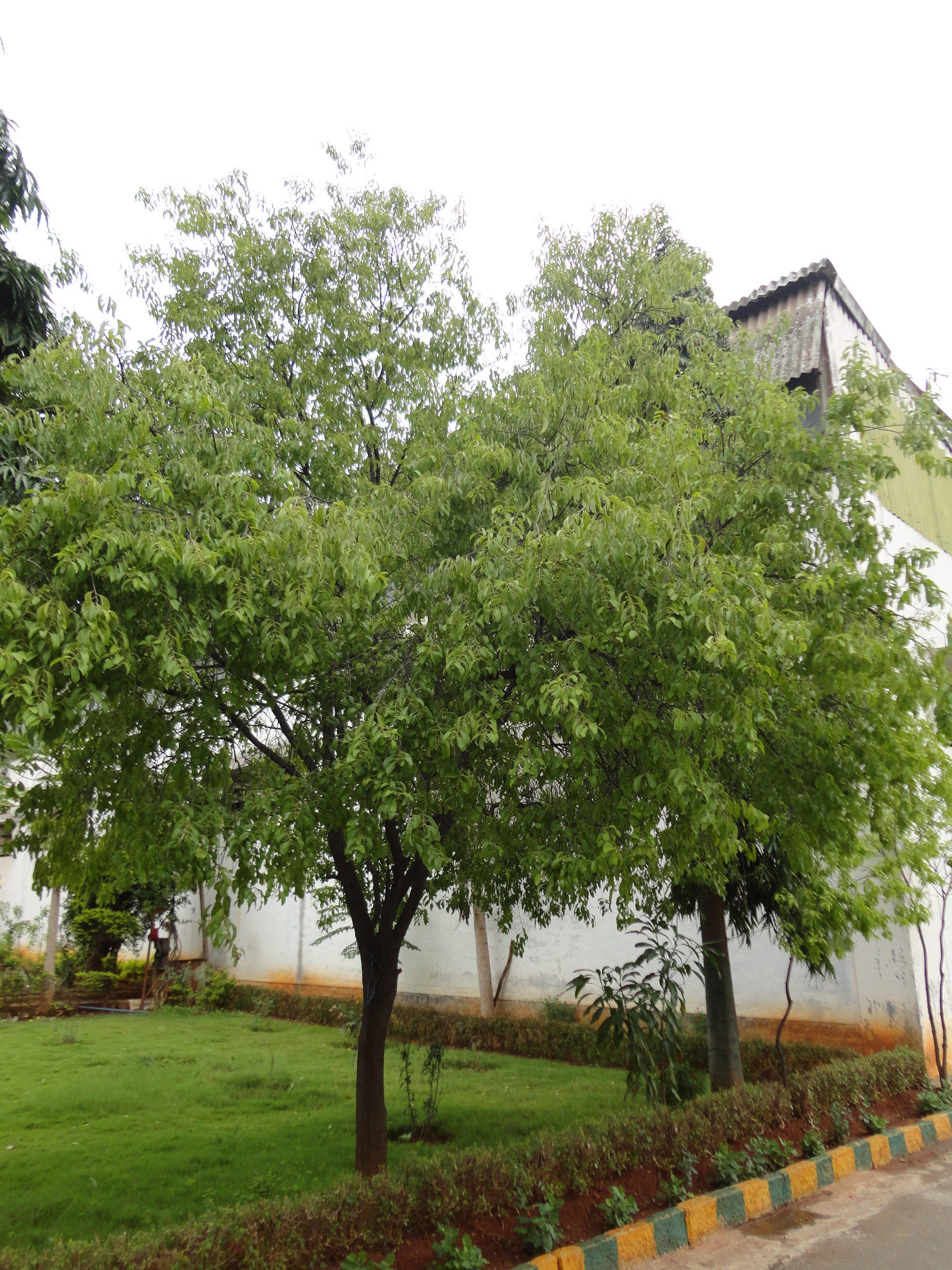 Shigandha